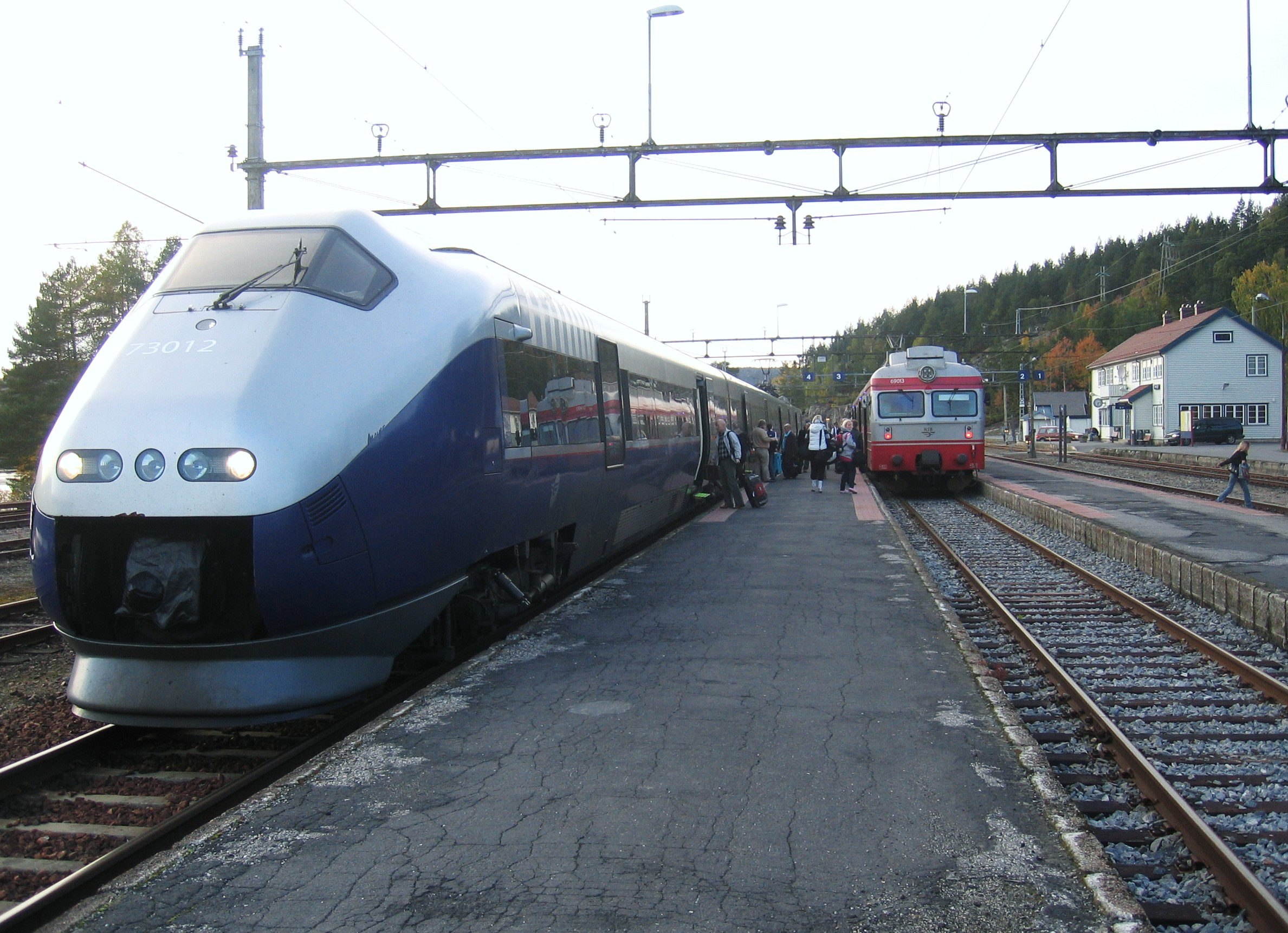 Nelaug railway station on the Sorland line.